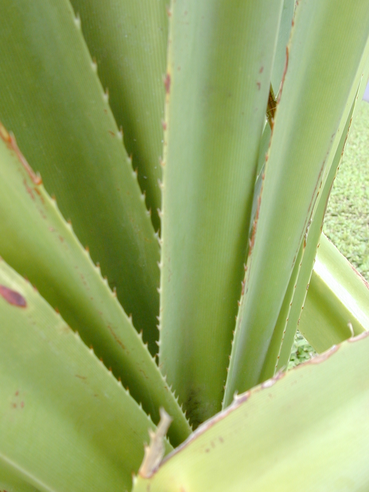 Pandanus tectorius (leaf margins). Location: Maui, Keopuolani dune